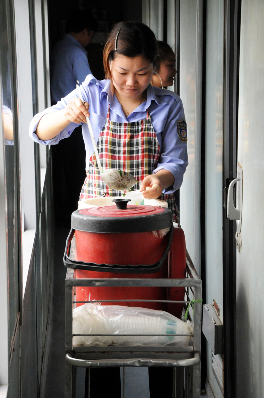 Train food. On a Vietnam Railways train from Hanoi to Danang.